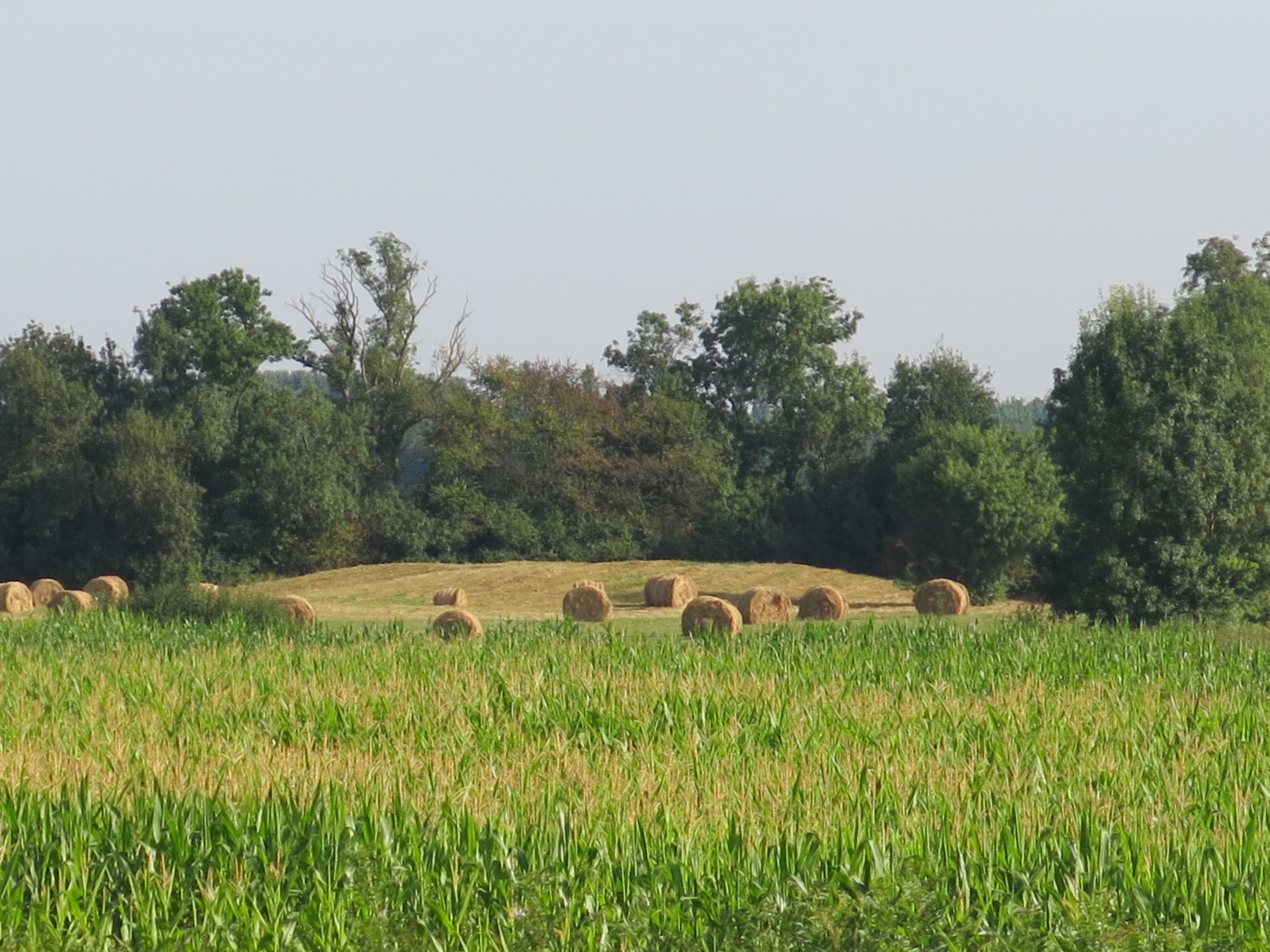 Tumulus Près-de-l'Eau (=Near water) in Lacrost (Saône-et-Loire, France) harvested !.